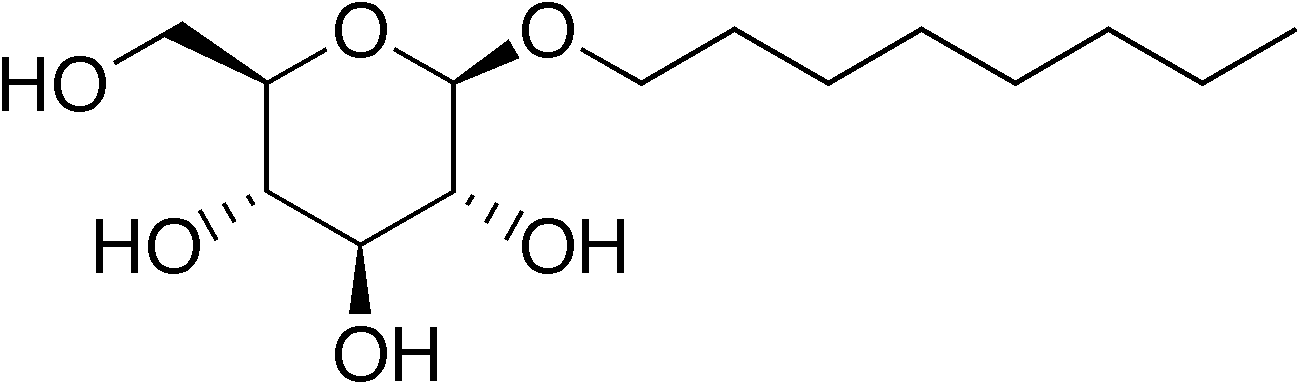 chemical structure of beta-D-octyl glucoside